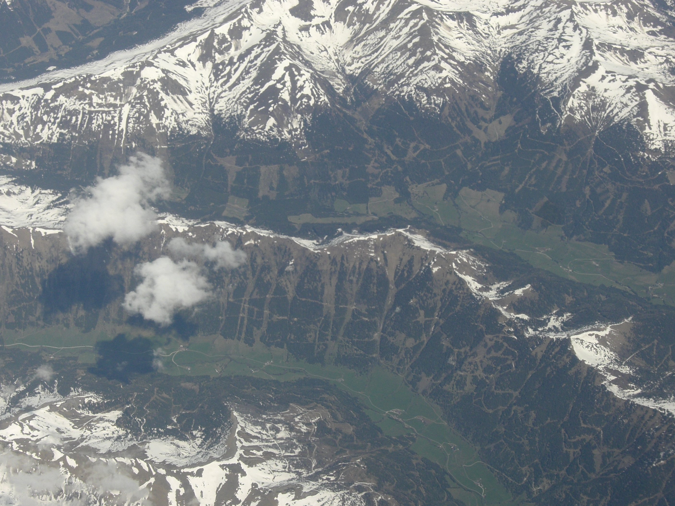 Alp, Styria, Austria.